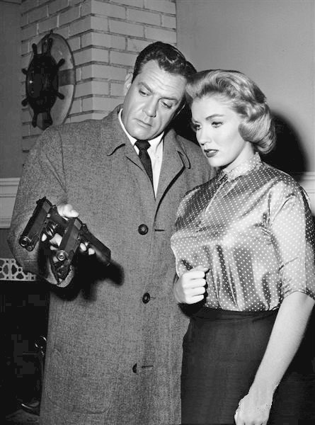 Photo of Raymond Burr as Perry Mason and guest star Joan O'Brien from the television program Perry Mason.